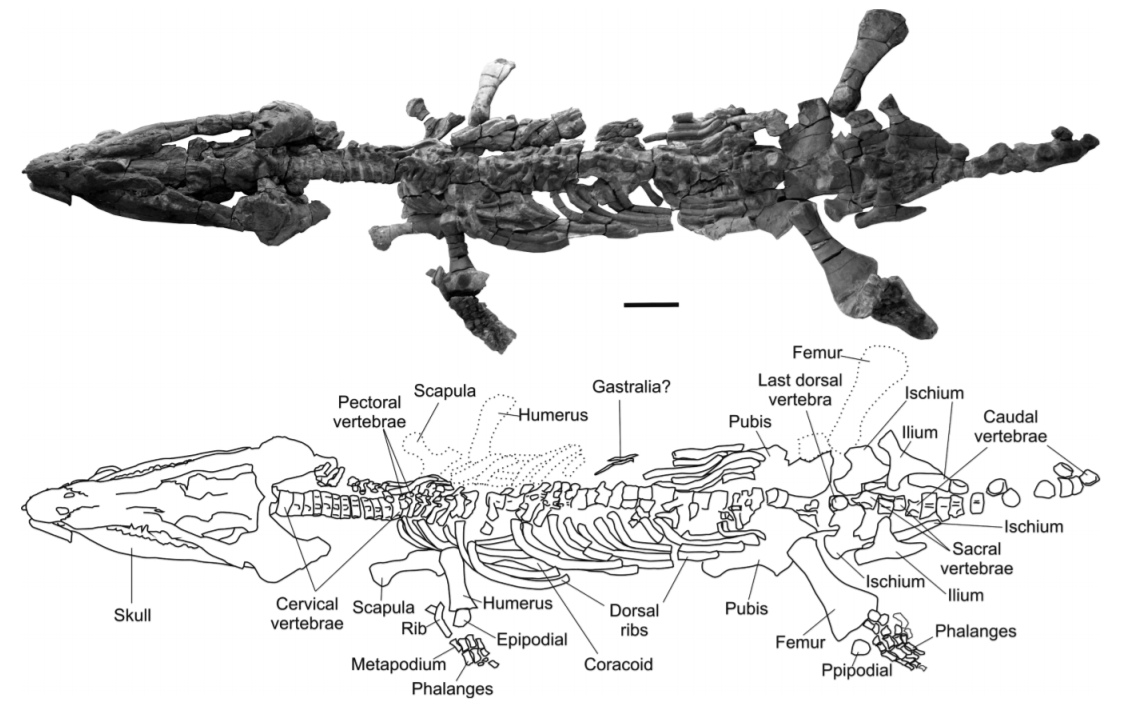 Sachicasaurus vitae - holotype - Paja Formation, Colombia